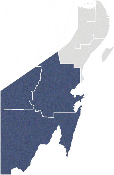 Map of the Second Federal Electoral District of the State of Quintana Roo, México.